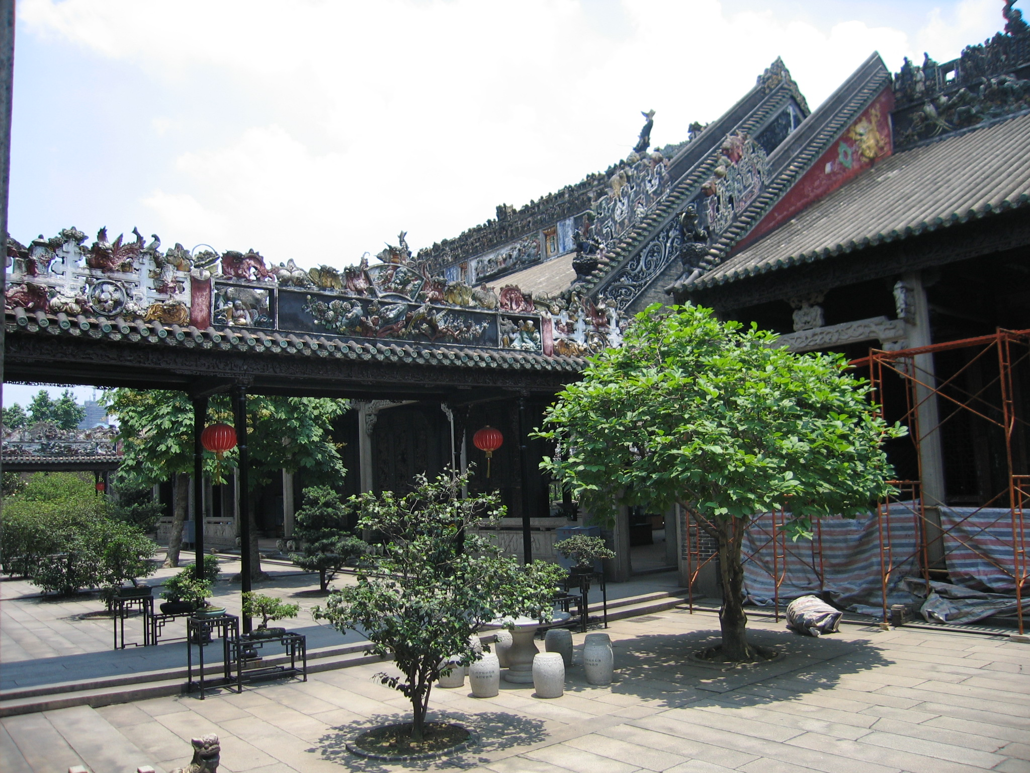 The Chen Clan Academy in Guangzhou, China.